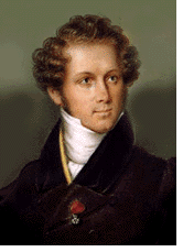 Bellini portrait in colour